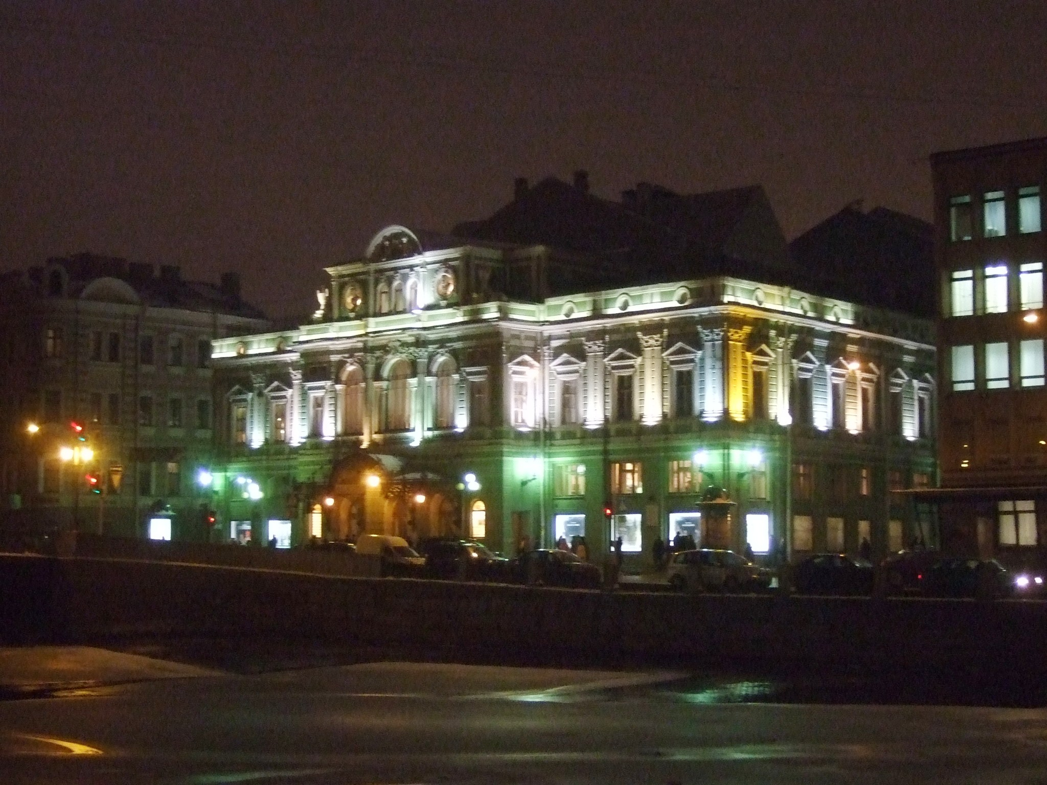 Tovstonogov Theater